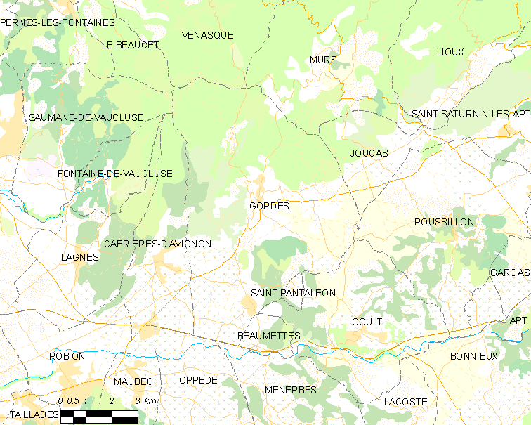 Map of French municipality Gordes